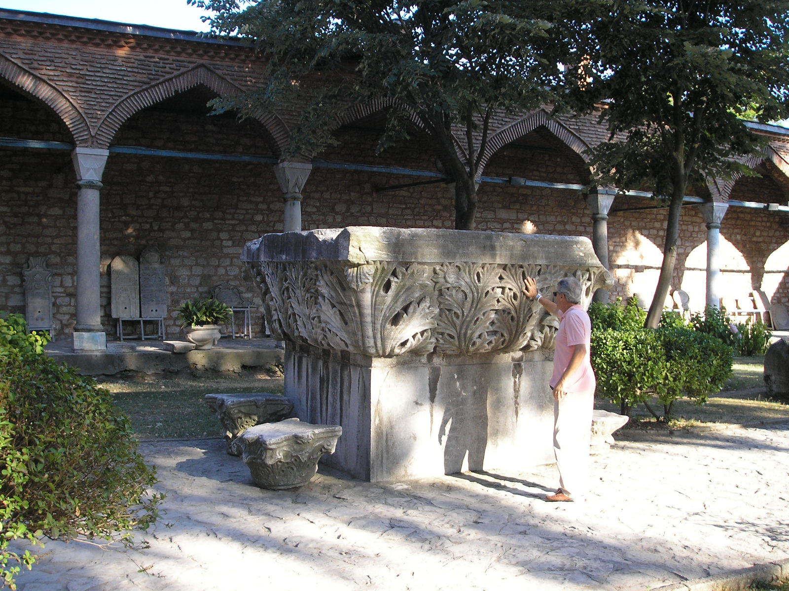 Remains of byzantine colums on the eastern side of the Second Court bordering the palace kitchens, in the Topkapi Palace in Istanbul.